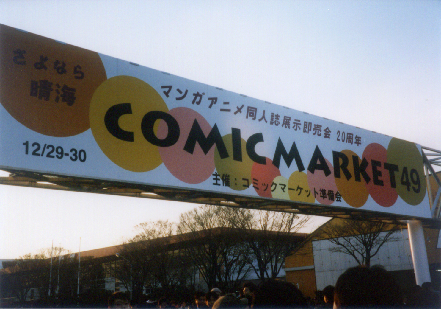 comic market 49